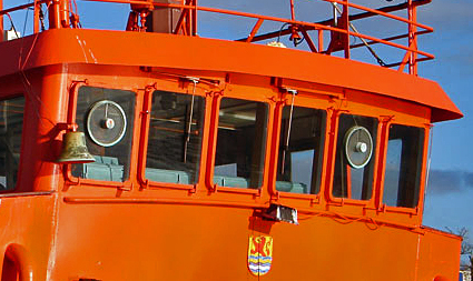 Navigation bridge of the tugboat Leao Dos Mares in Concarneau.